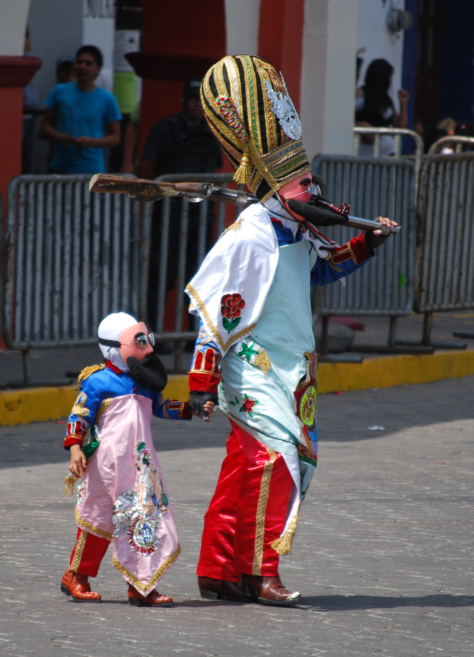 Zapador with child at the Carnival of Huejotzingo, Puebla, Mexico